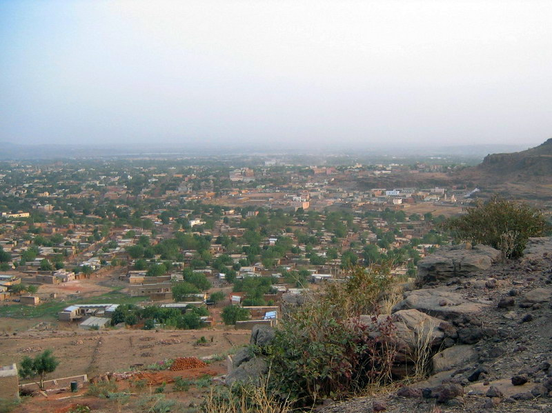 Hilltop view over Bamako taken by Guaka